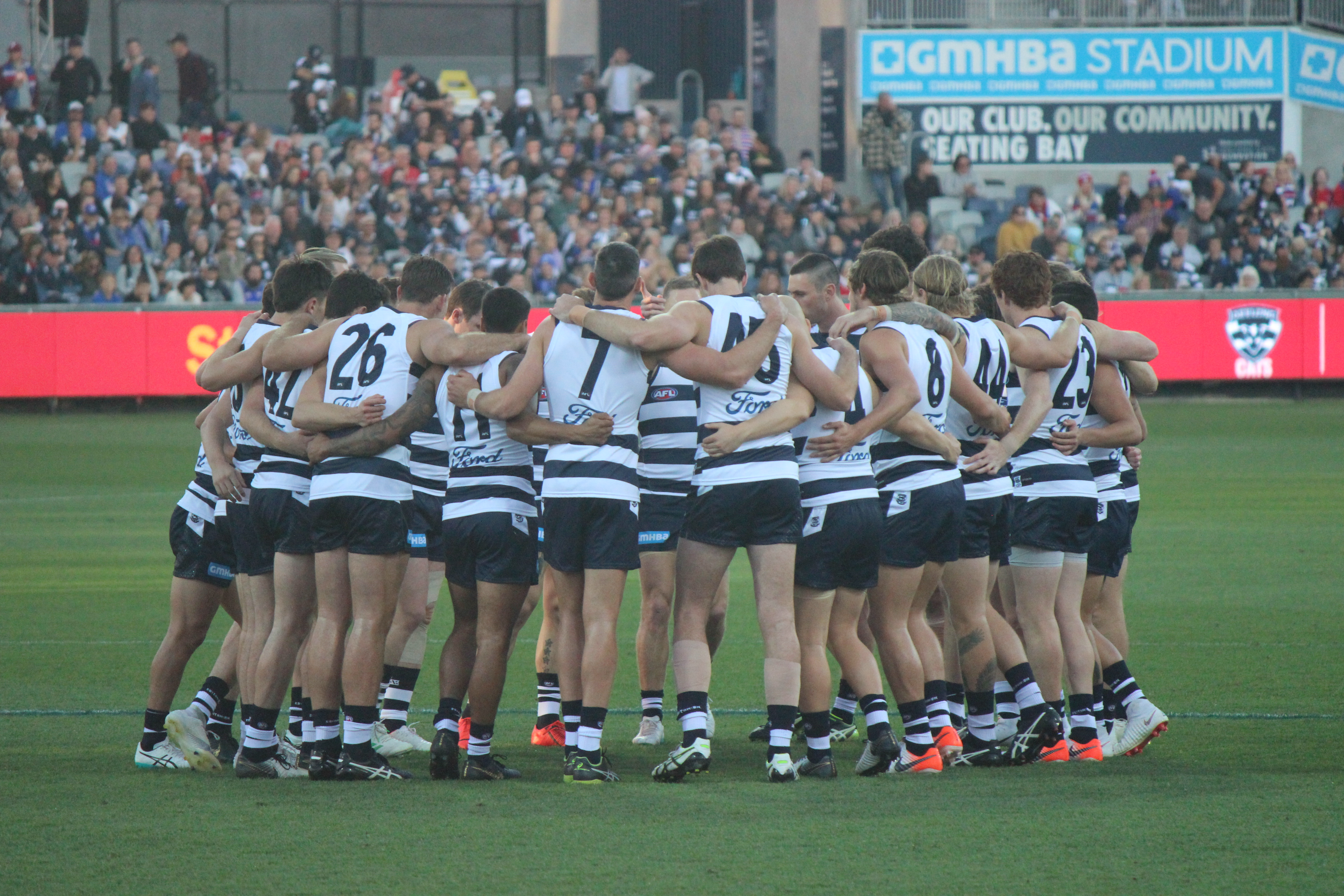 Geelong team huddle during a match against Western Bulldogs at Kardinia Park in round 9 of the 2019 AFL season.